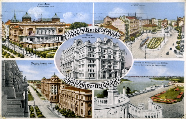 An old postcard from Belgrade, modern-day Serbia